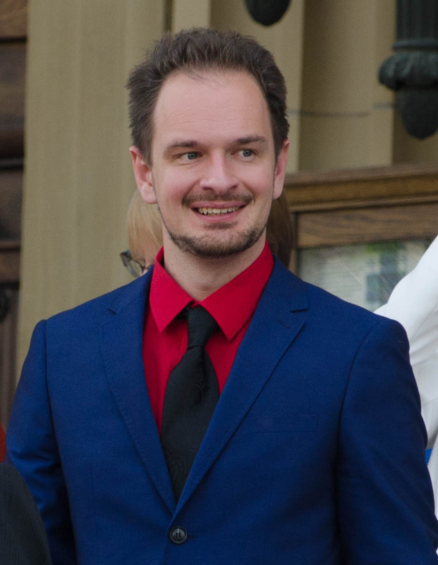 Brian Malkinson at the 2015 Alberta Premier/Cabinet swearing-in ceremony, by Connor Mah.